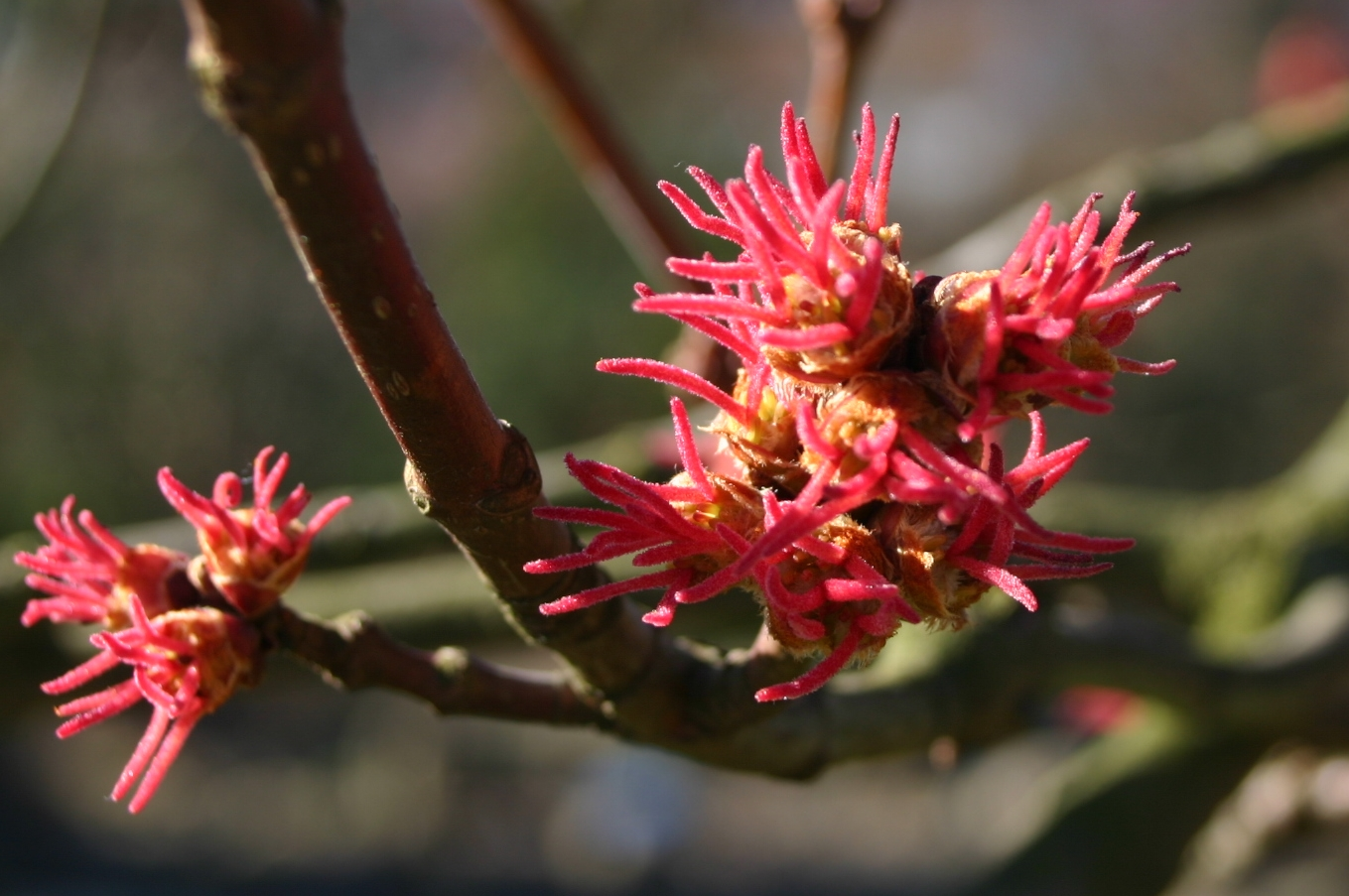 Acer saccharinum: Flowers.